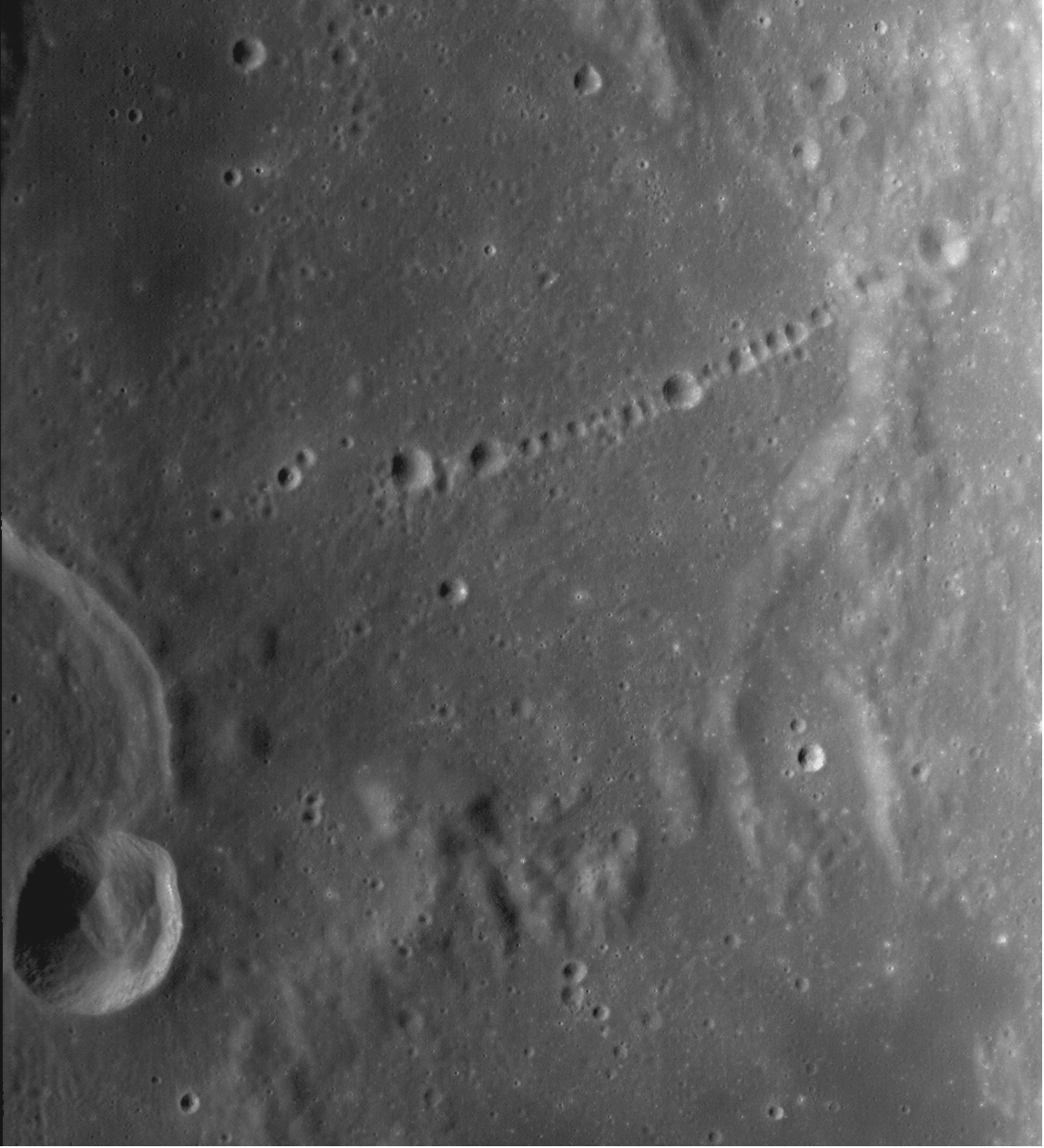 Catena Davy — crater chain on the edge of Mare Nubium near crater Davy. Image by Lunar Reconnaissance Orbiter (LROC WAC frame M119896473ME)